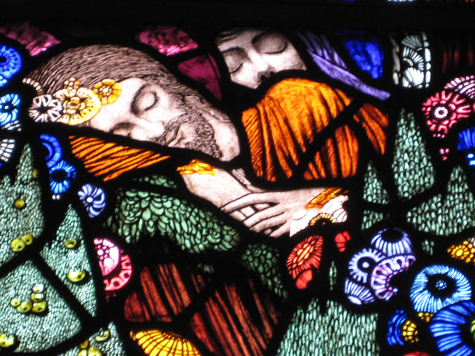 This window has been designed by Harry Clarke in 1924 and is titled The Agony in the Garden. It was installed in the Presentation Convent Chapel (designed by C. J. McCarthy in 1886) which is now the Institute of Education and Celtic Culture in Dingle, County Kerry.